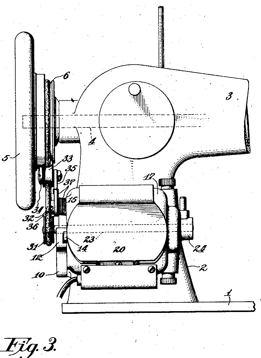 Figure 3 from US patent 1448234